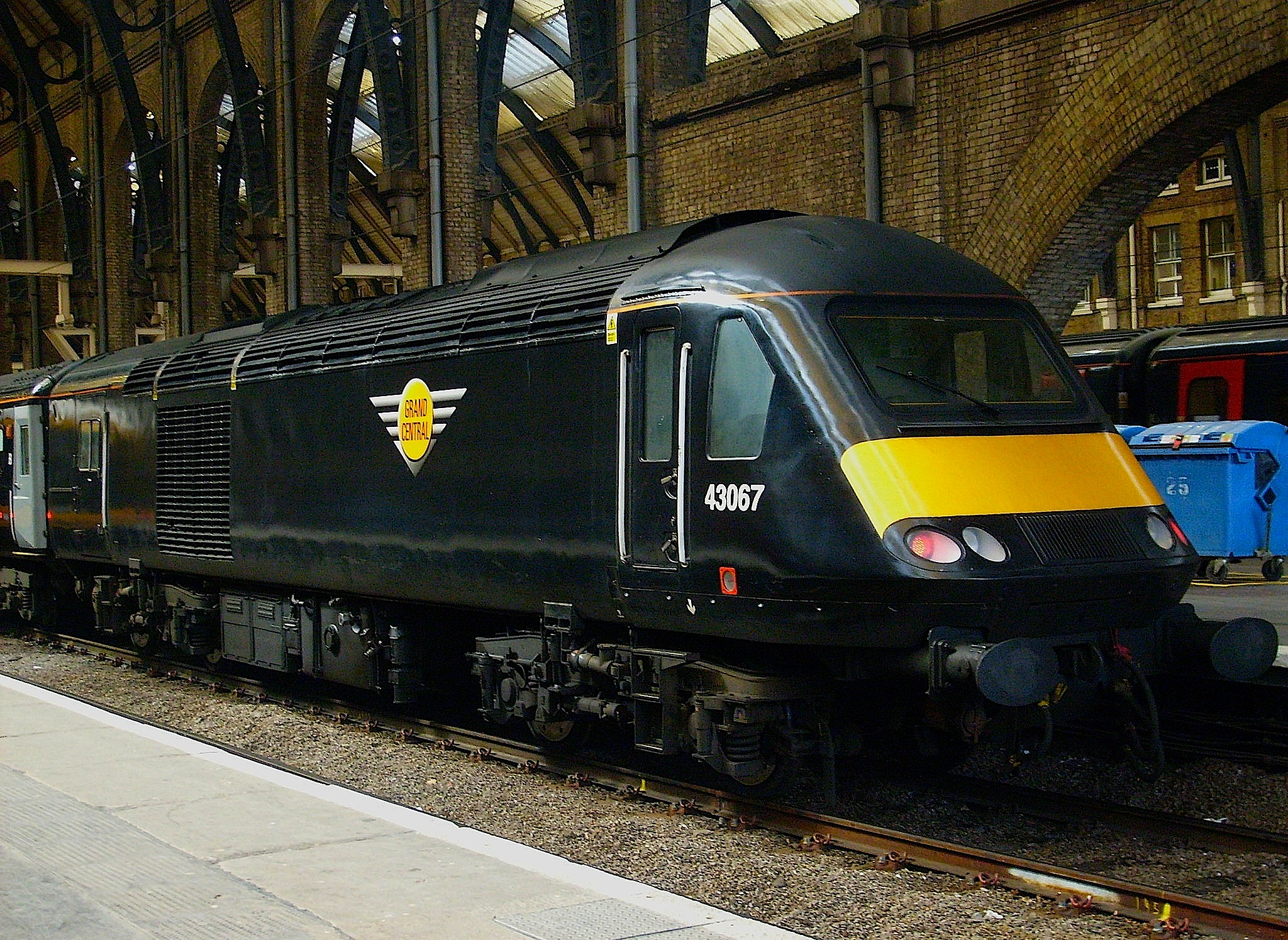 Grand Central Class 43 Power Car No. 43067 at London Kings Cross